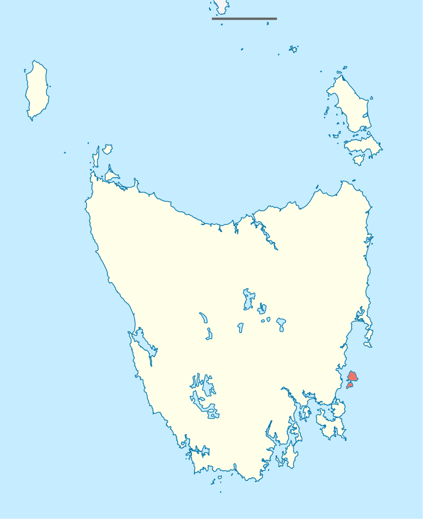 Part of a series of locator maps for Islands of Tasmania Based on File:Australia_Tasmania_location_map_blank.svg